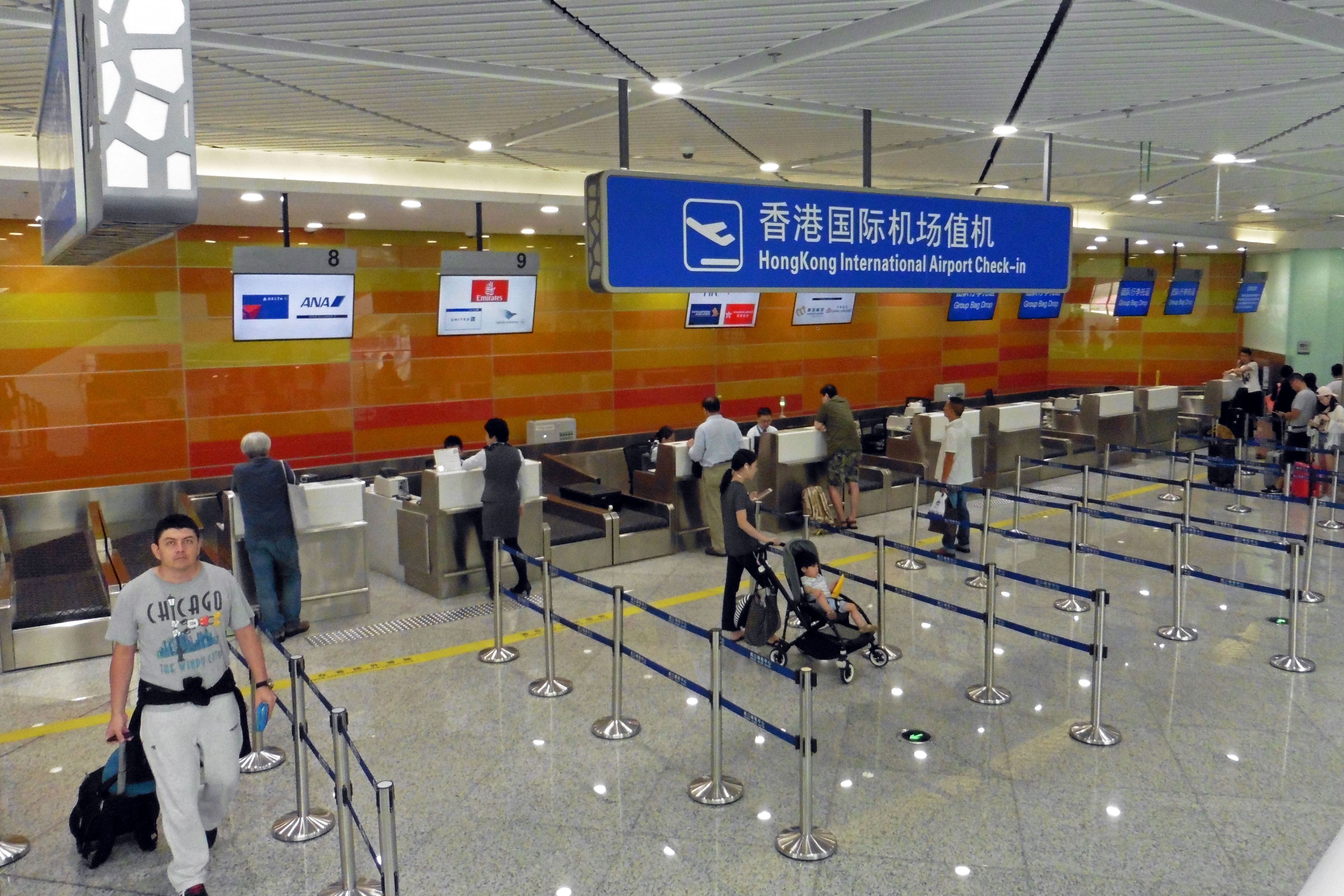 Replacing the very old Shekou ferry terminal the Shekou Cruise Center in Shenzhen is the first Cruise ship terminal in China. Also functions as a ferry terminal for boats to Hong Kong, Zhuhai and Macau.